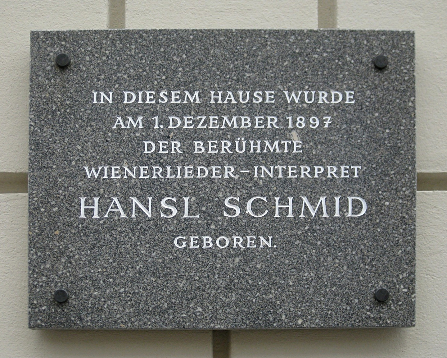 Plaque for Hansl Schmid at Redtenbachergasse 45, Ottakring, Vienna.